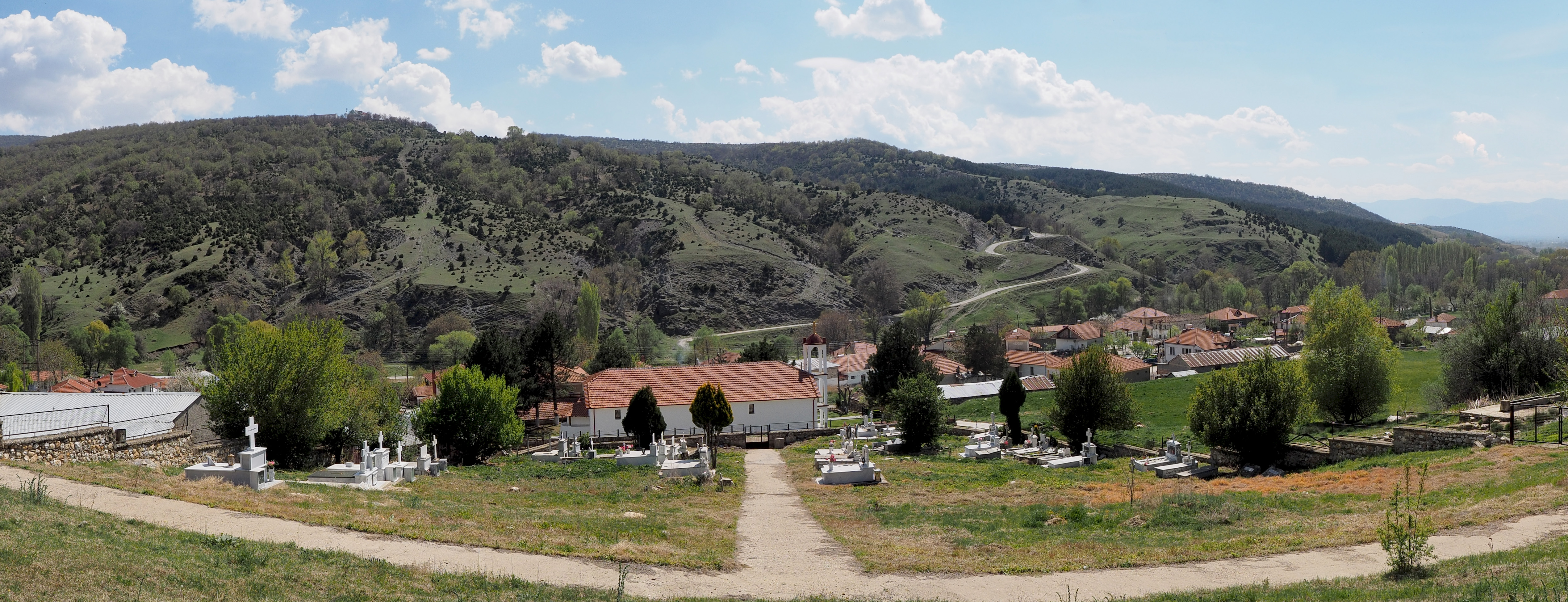 Skopos panorama (Florina), Greece